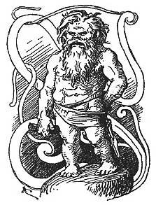 A singular, small depiction of a rather gnarly-looking dwarf appearing with the list of dwarves in Völuspá. No caption or title given in work.